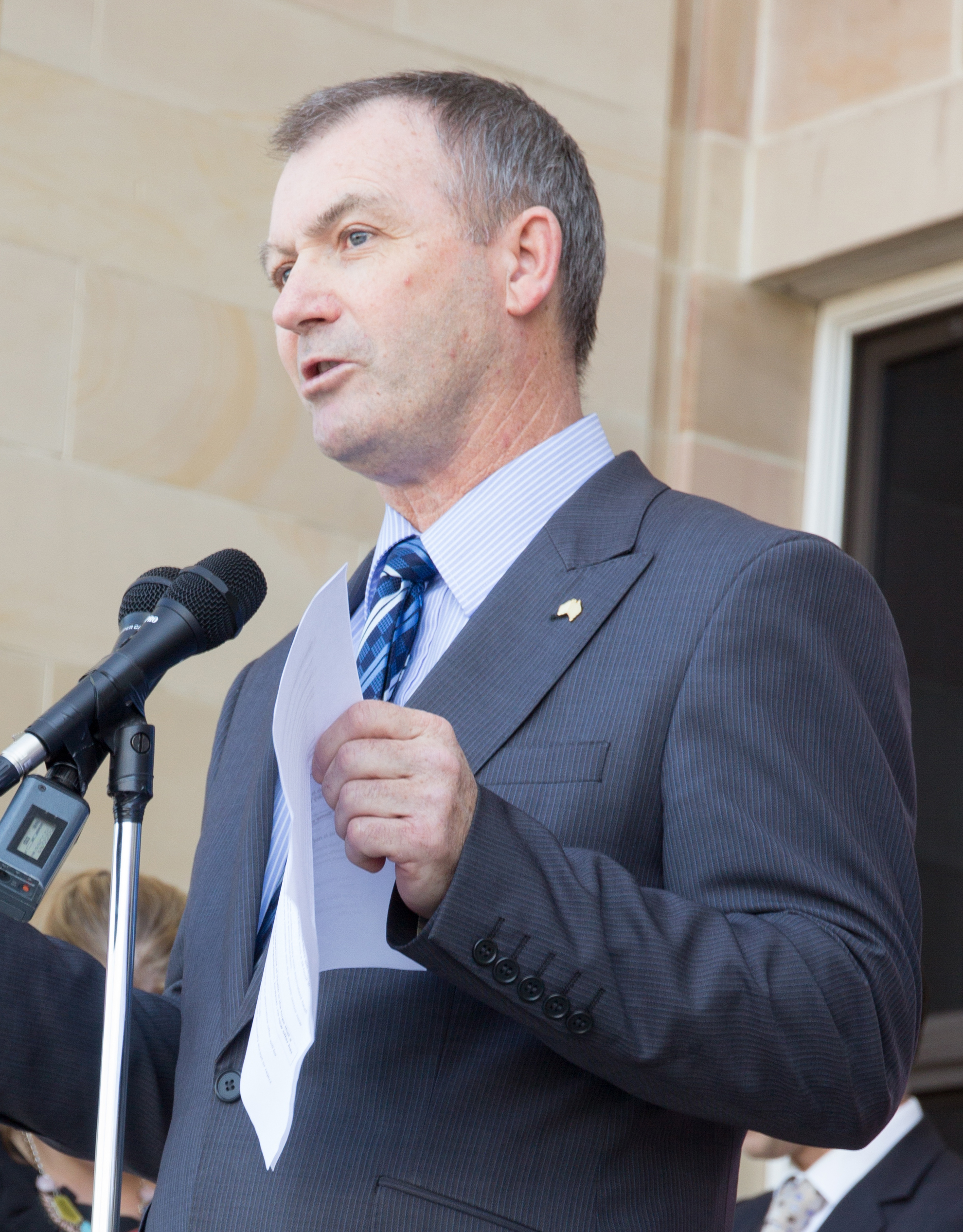 Western Australian Health Minister and Deputy Premier Kim Hames addressing a "Dental Health Rally" in Perth.